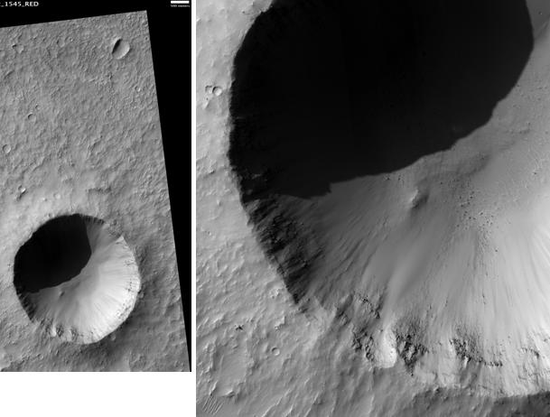 Small crater in Schaeberle Crater, as seen by hirise. Scale bar is 500 meters long. Location is 25.4 degrees south latitude and 50 degrees east longitude. Image was taken by the Mars Reconnaissance Orbiter's HiRISE. The HiRISE camera was built by Ball Aerospace and Technology Corporation and is operated by the University of Arizona. Image courtesy NASA/JPL/University of Arizona.